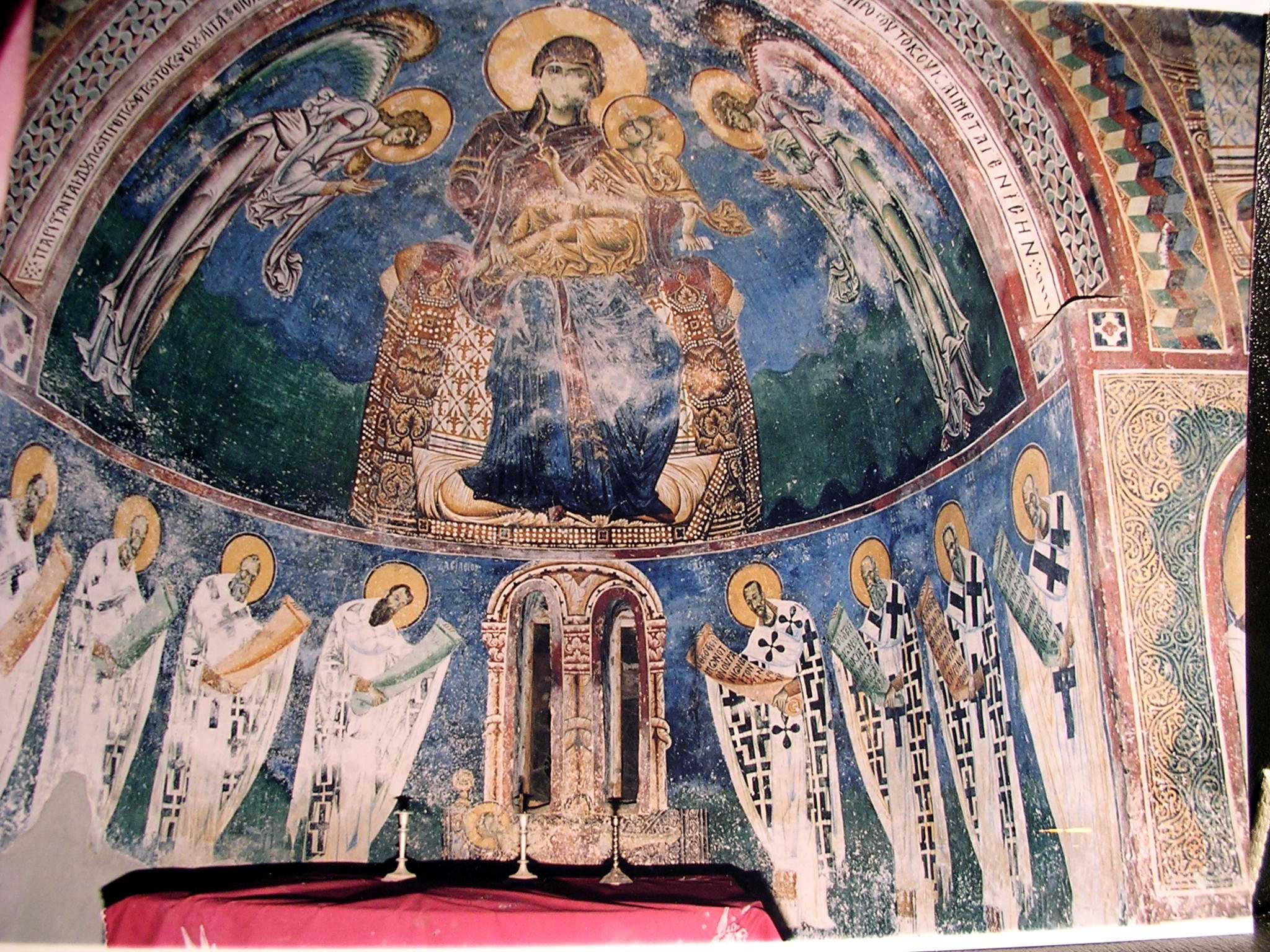 Frescos in St. Geoge Church in Kurbinovo, Prespa, Macedonia